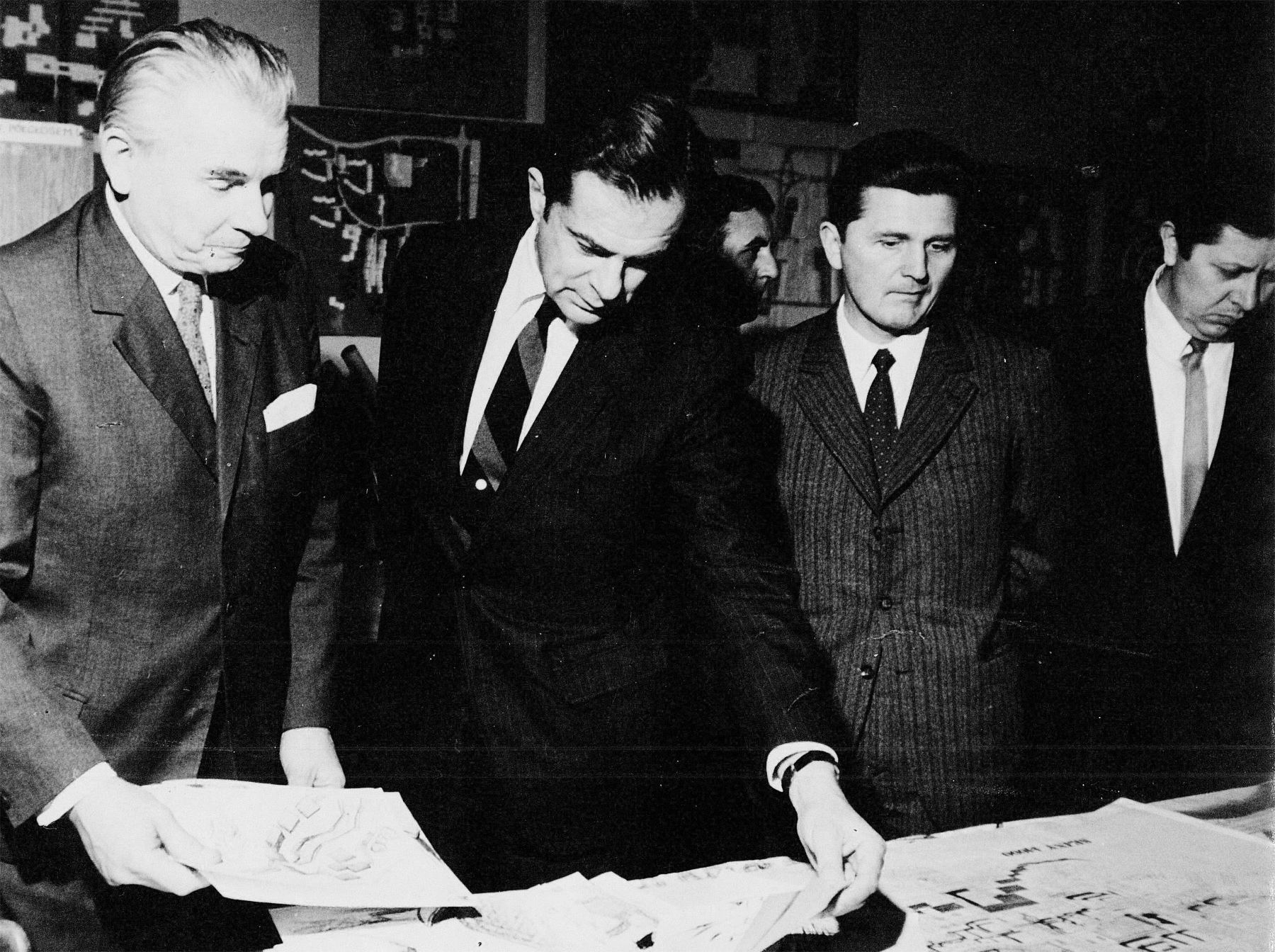 from left, Chancellor Mieczysław Łubiński, Jan J.Więckowski (vice-president of the Girard Trust Foundation in Philadelphia, USA), Col. Zdzisław Ciesiołkiewicz, and other in talks at the Warsaw University of Technology, April 1971.